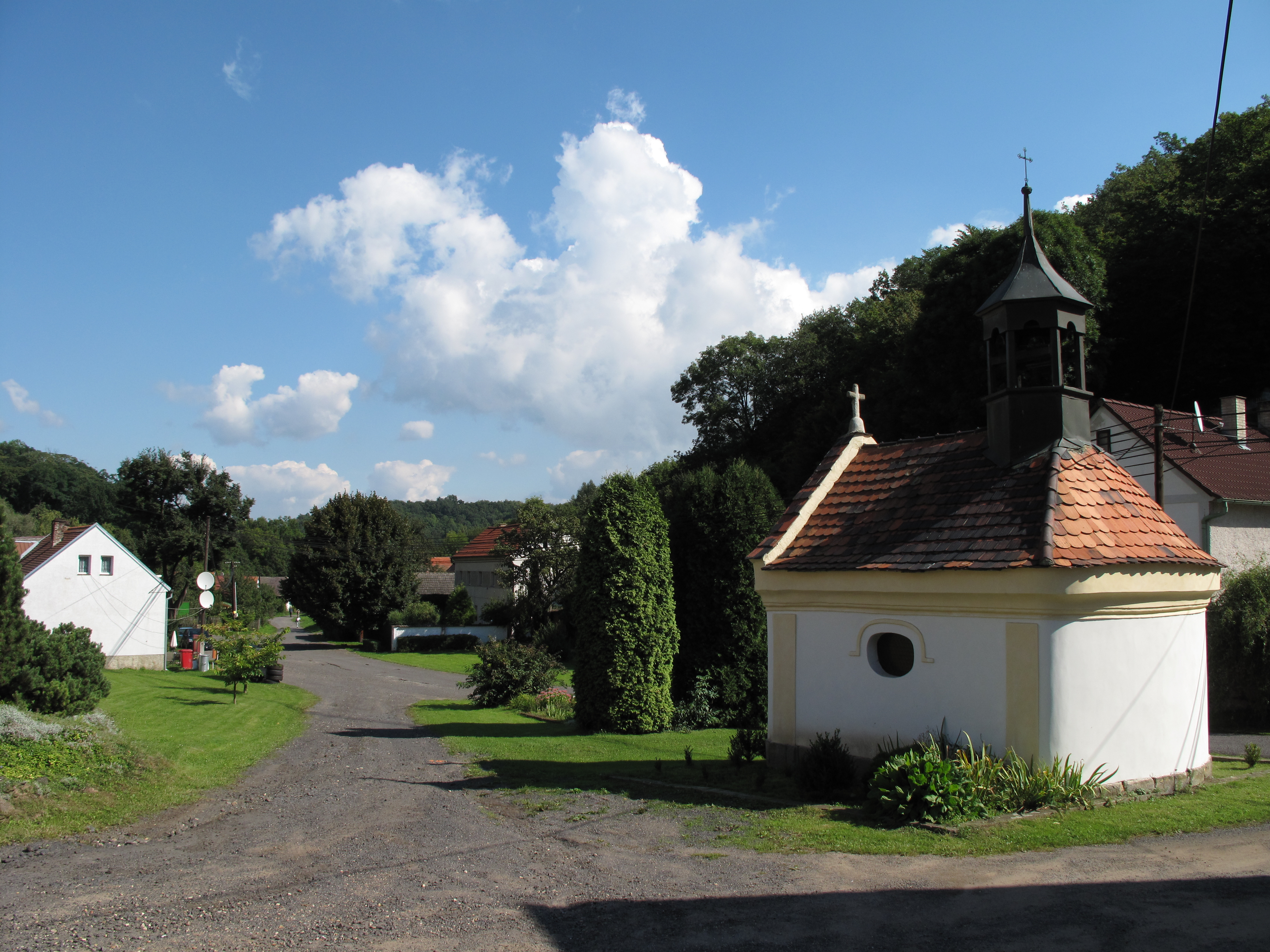 Village square with village chapel in Oparno village (Velemín municipality), Litoměřice District, Czech Republic.